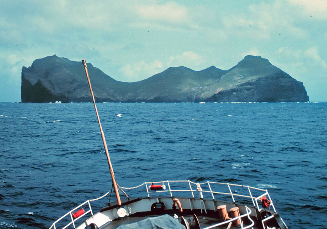 View of Nihoa Island, Hawaiian Leeward Islands